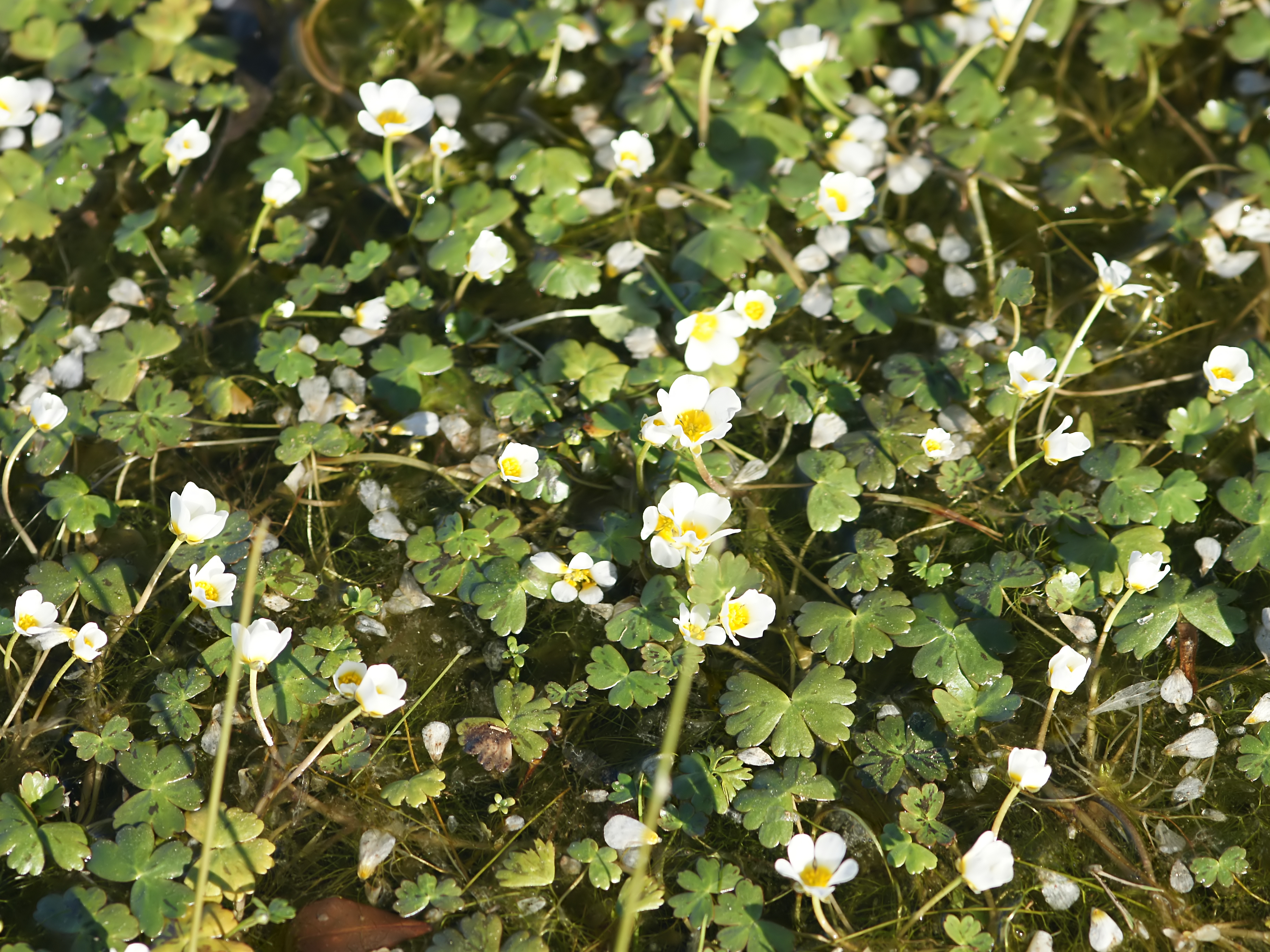 Common water-crowfoot close to Urzulei on the SS125 road, Sardinia, Italy